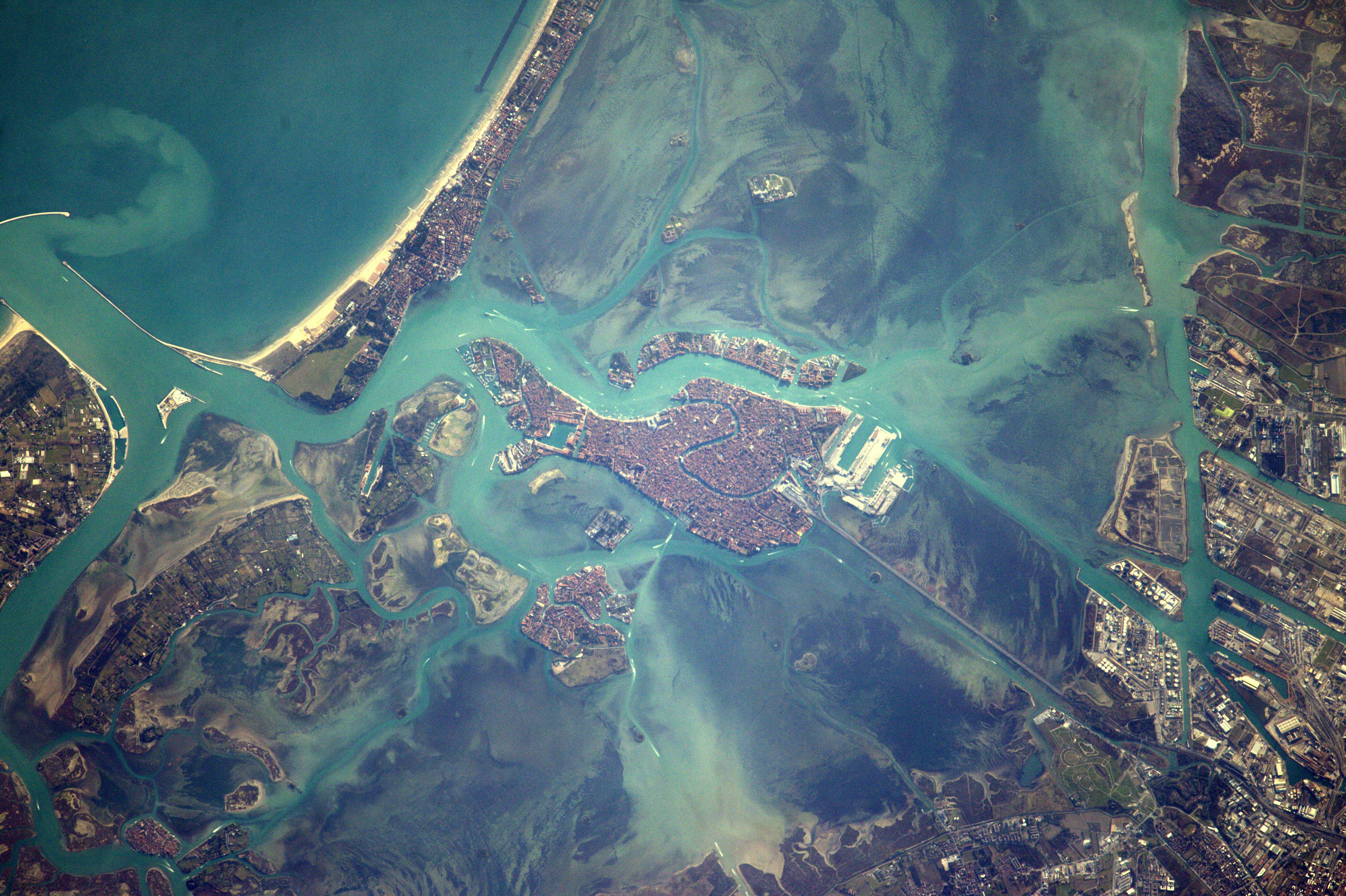 Expedition 50 Flight Engineer Thomas Pesquet of the European Space Agency shared this photograph from the International Space Station on Feb. 14, 2017, writing, "Venice, city of gondoliers and the lovers they carry along the canals. Happy Valentine's Day!"